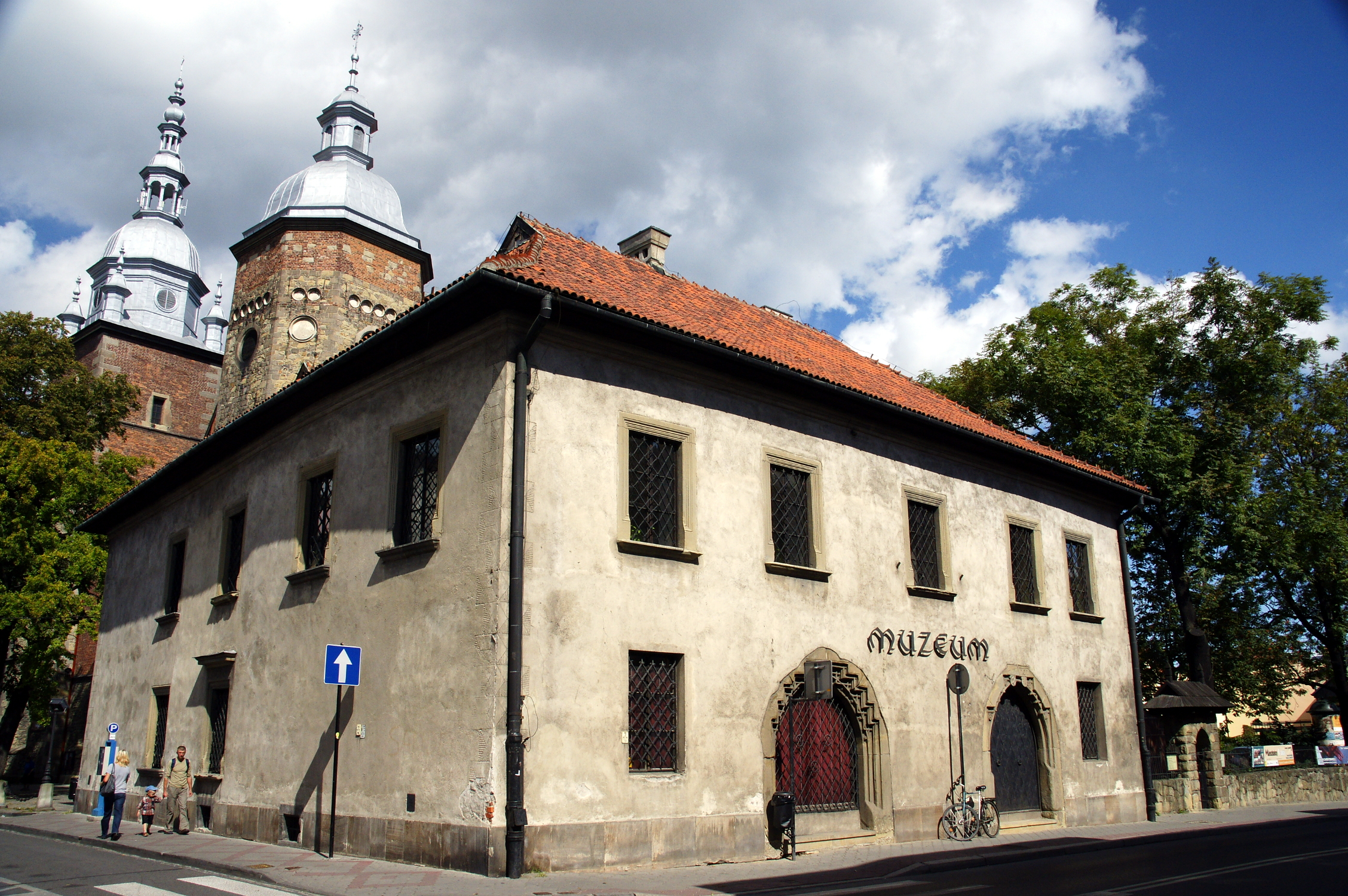 Gothic House - the main offices of the Nowy Sącz Museum